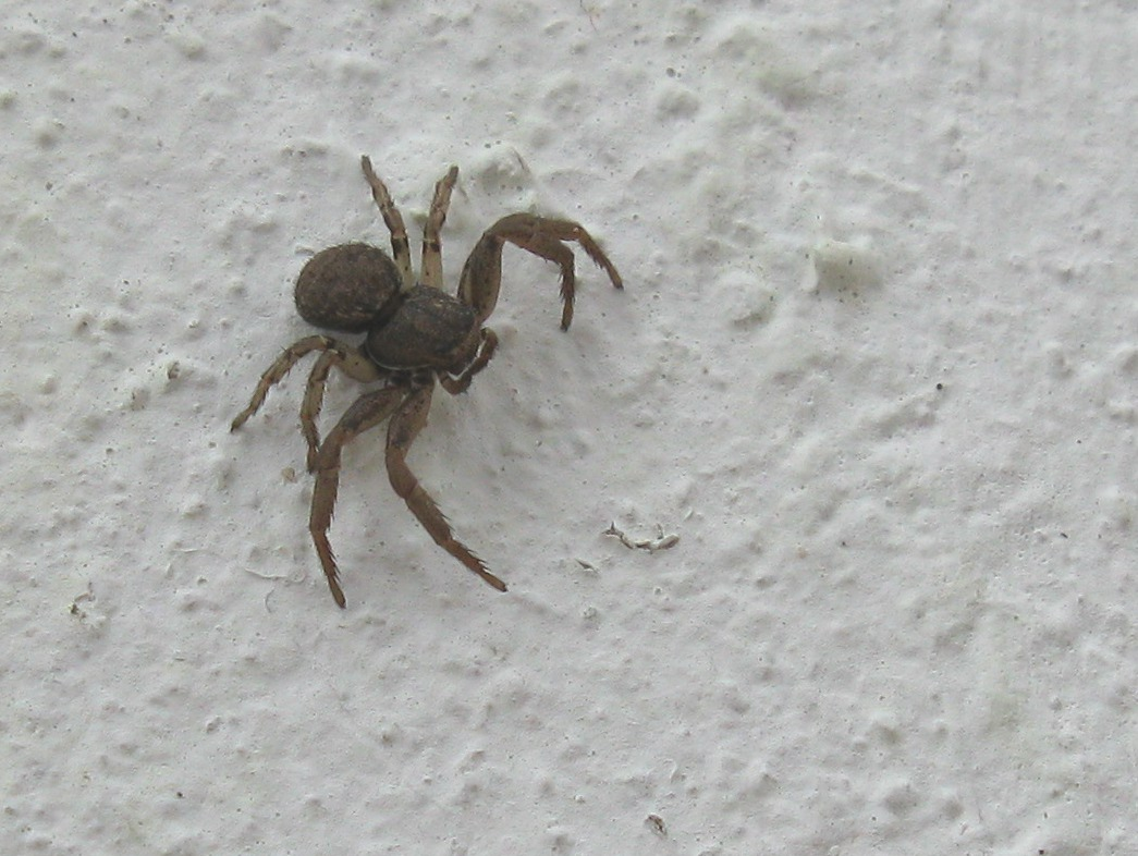 Xysticus female, species unidentified. Ground-dwelling and coloured accordingly.